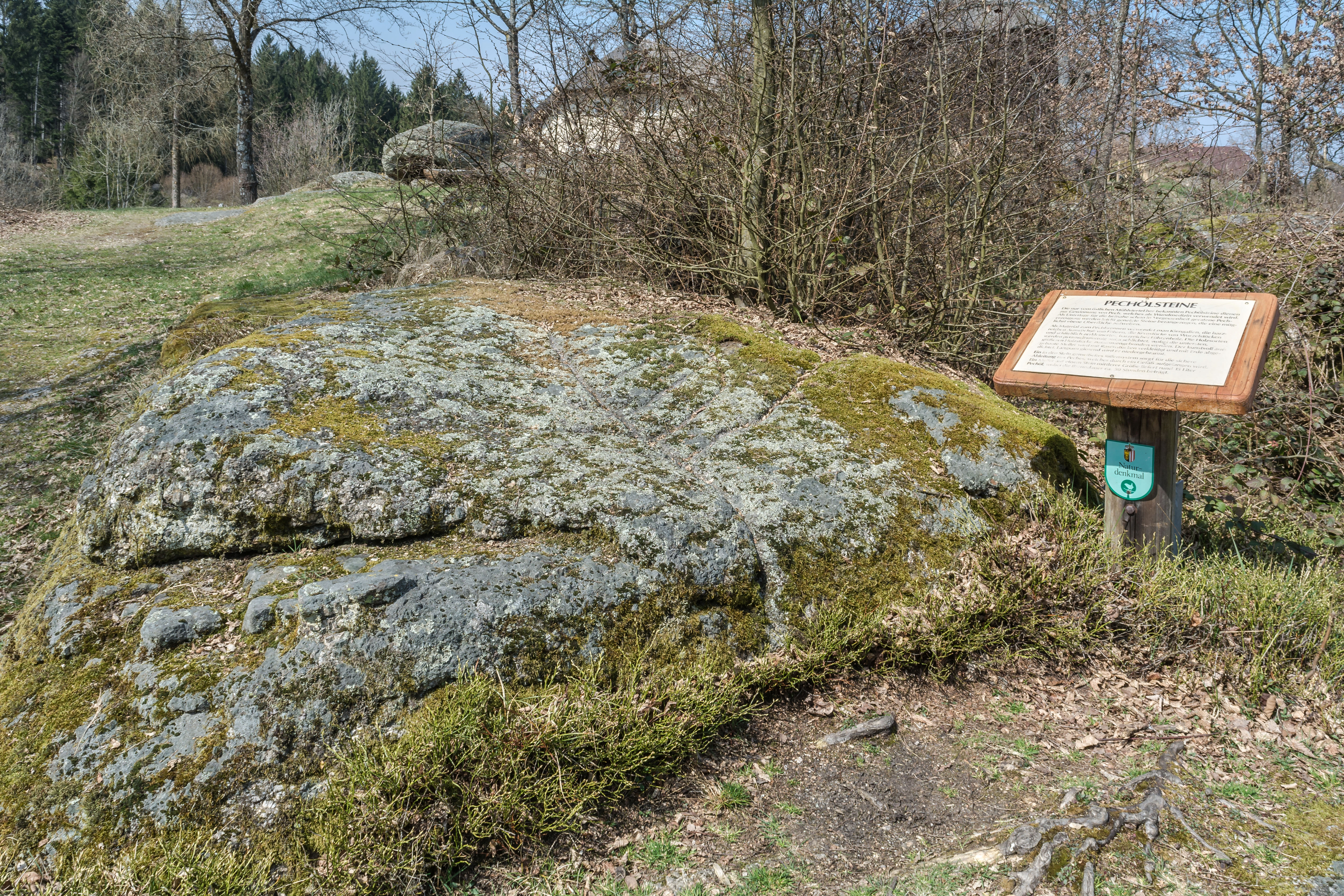 This stone is located close to the open-air museum Großdöllnerhof in Rechberg (Upper Austria). Above the leaf-shaped groove system pitch containing pieces of wood were piled up and charred to coal. The emergent pitch was collected at the lower side and used for embrocation and as vulnerary drug. This media shows the natural monument in Upper Austria with the ID nd570.